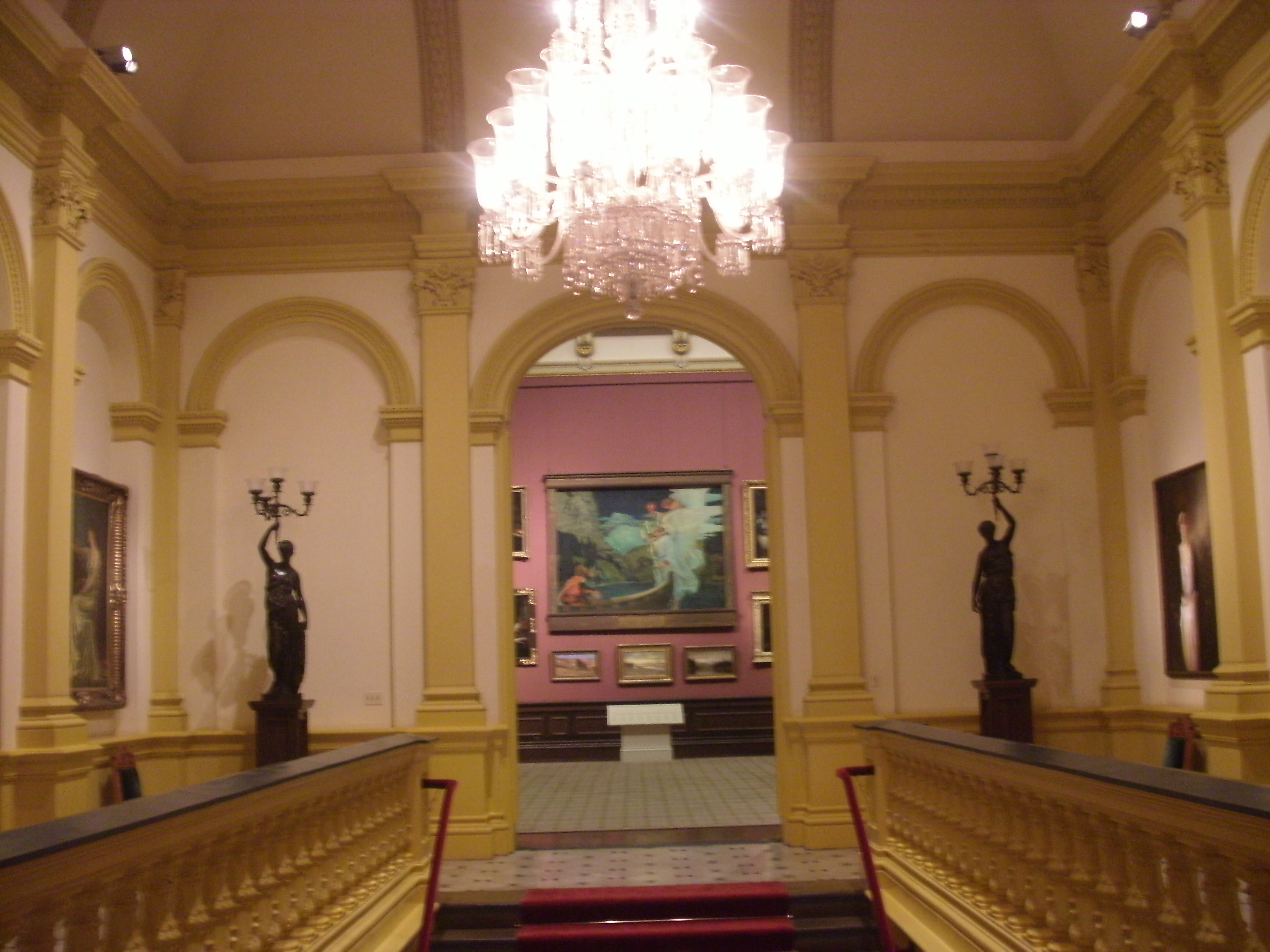 Renwick Gallery, Northeast corner of 17th St. and Pennsylvania Ave., NW Monumental Core